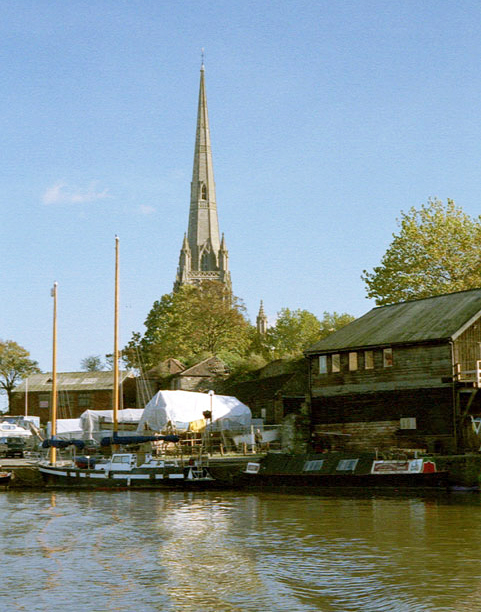 Larger version of Bristol (St Mary Redcliffe) photo This is nevilley's own photo, taken by nevilley, and gladly handed over for any usage you like. Please do not send silly messages about it to nevilley's user page as it gives him a headache. If you're moving the goalposts (again) so that whatever I already did is no longer good enough, you might as well just delete it, as I can't be bothered to mess around further. Thank you.